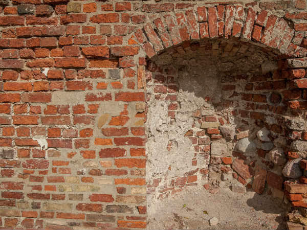 Ruins of a brick wall in Bhismaknagar